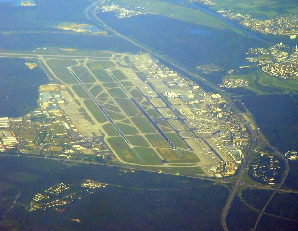 Aerial photo looking from the east showing Frankfurt airport as a light island in the dark forest. Service areas, passenger and cargo terminals to the right, to the left the former US Air Base, where among others "Cargo City South" is being built.